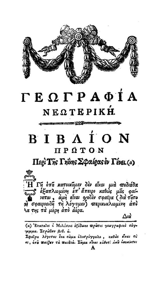 Cover of Ch. 1 of Geograpghia Neoteriki by D. Philippidis, G. Konstantas, 1791